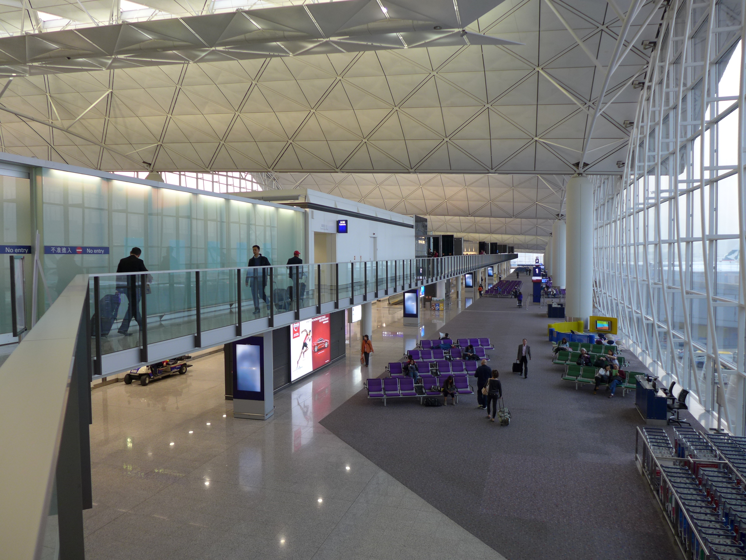 HKIA Terminal 1 South Concours